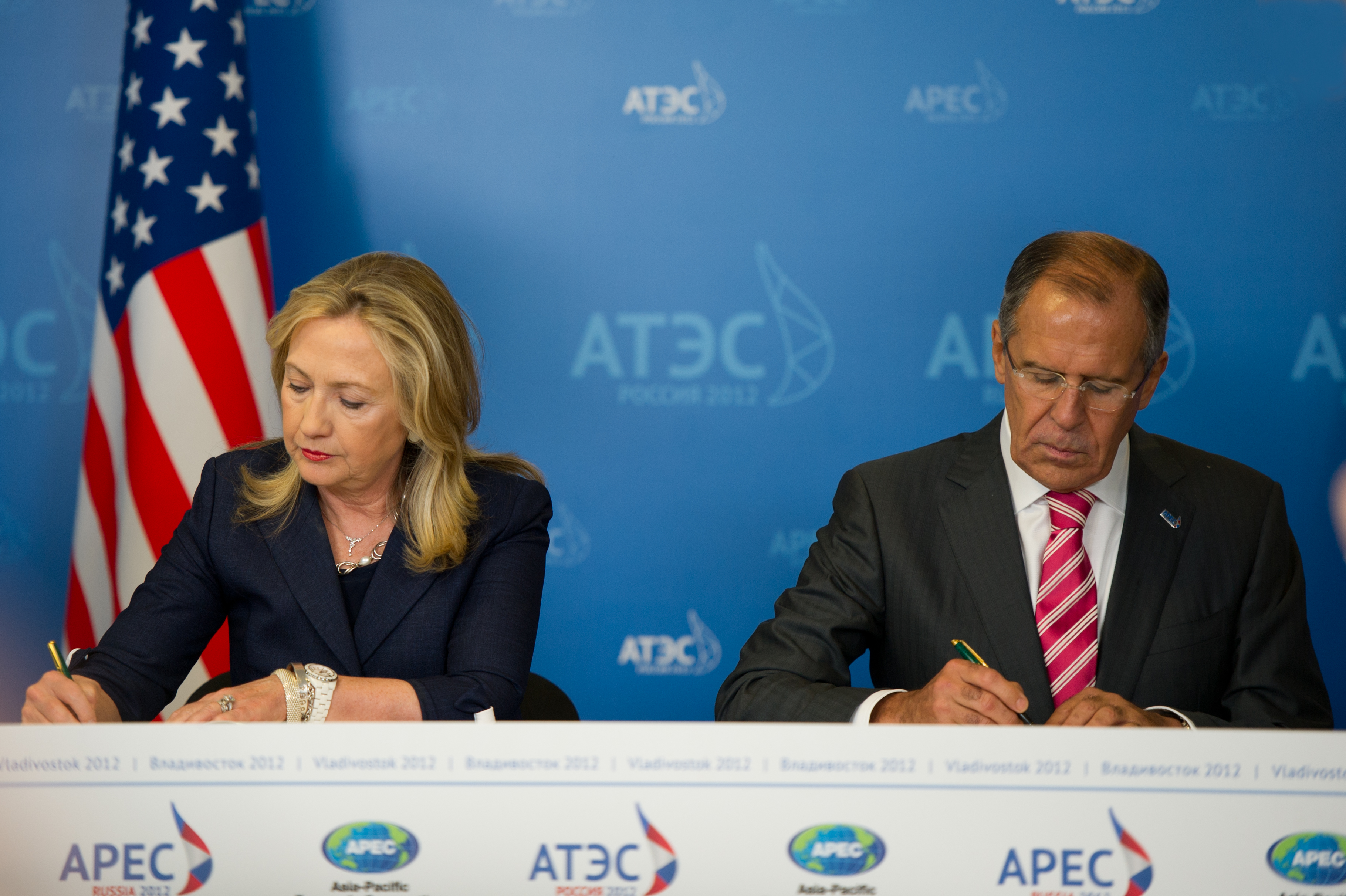 VLADIVOSTOK, Russia (September 8, 2012) U.S. Secretary of State Hillary Rodham Clinton at a Signing Ceremony with Russian Foreign Minister Sergey Lavrov during the Asia-Pacific Economic Cooperation Leaders' Week [State Department photo by William Ng/Public Domain]